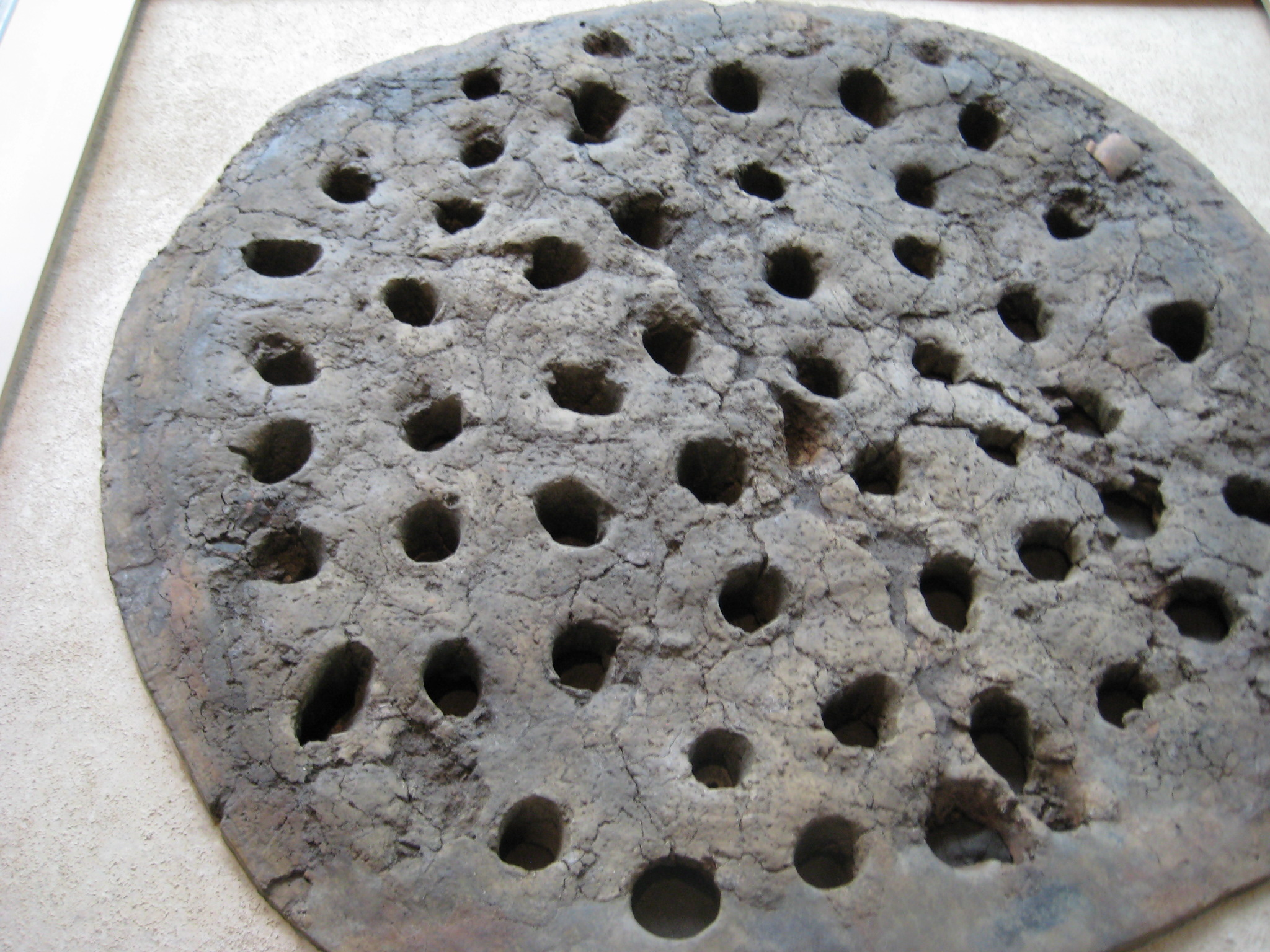 Perforated base of ceramic kiln from the bronze age. On display in the Keltenmuseum Manching, Germany.